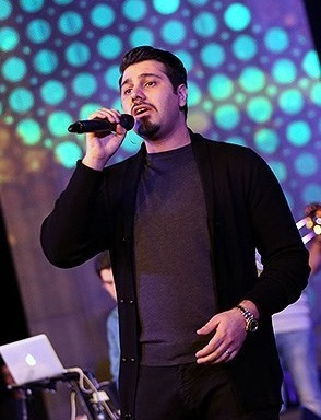 Iranian singer, Ehsan Khajeamiri in a concert in Milad Tower